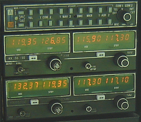 Complete duplex Bendix/King navcom radio set in the cockpit of a Cessna 172. The left side instruments are communication radios, set to 119.35 and 132.375 MHz (LHGD and LHBP area), the stand-by frequencies are set to the optional following ACC channels. On the right side the VOR navigation receivers are set to 115.90 and 117.30 MHz (TPS and BUD). On the upper side that is a double headphone mixer for the comm and navid channels, with ILS marker lights on the left.